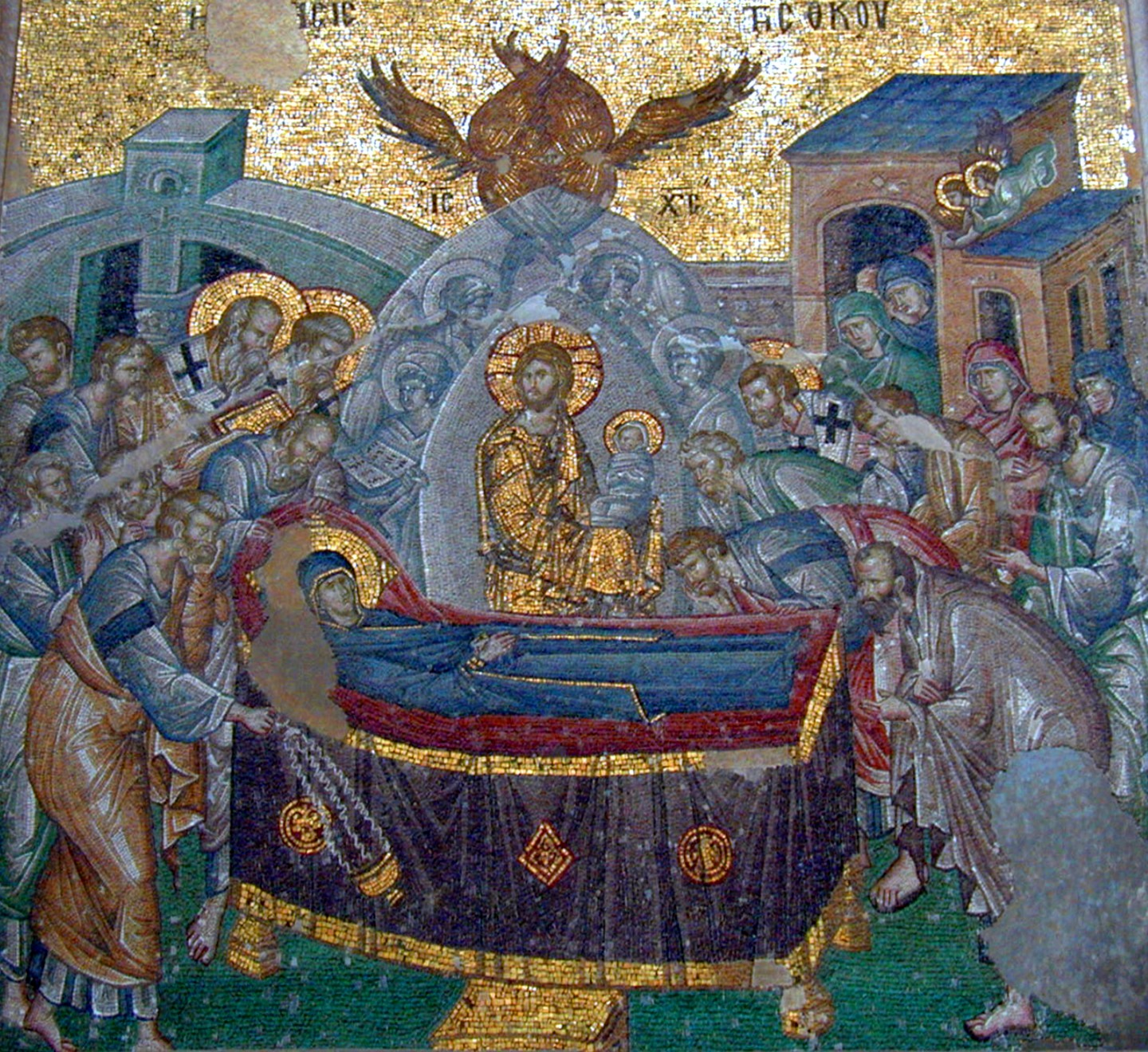 The Koimetesis - Dormition de la Vierge. Chora church in Constantinople/Istanbul. Photograph taken by Marsyas 13:19, 19 January 2006 (UTC)